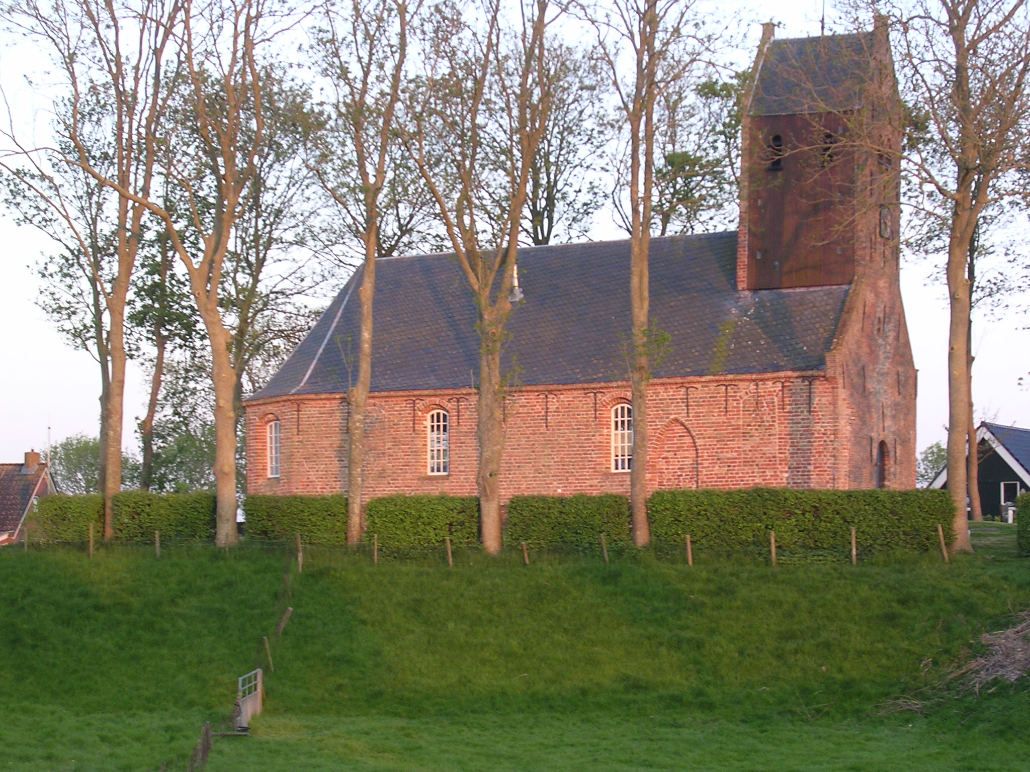 Church in the village Lichtaart